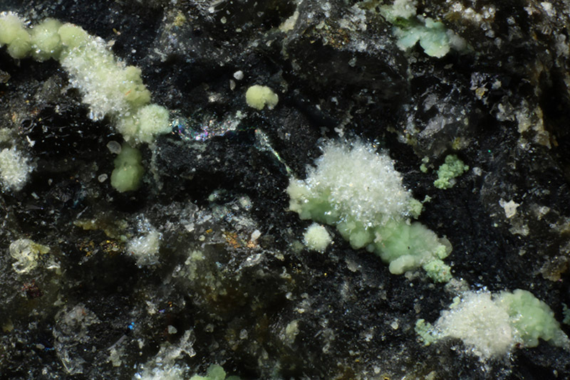 1.62 mm group of Abellaïta white crystals micaceous habit aggregates. Collection Joan Abella i Creus Photo Matteo Chinellato Collected: 2015 Locality: Eureka mine, Castell-estaó, La Torre de Cabdella (La Torre de Capdella), La Vall Fosca, El Pallars Jussà, Lleida (Lérida), Catalonia, Spain Field of View: 1.62 mm